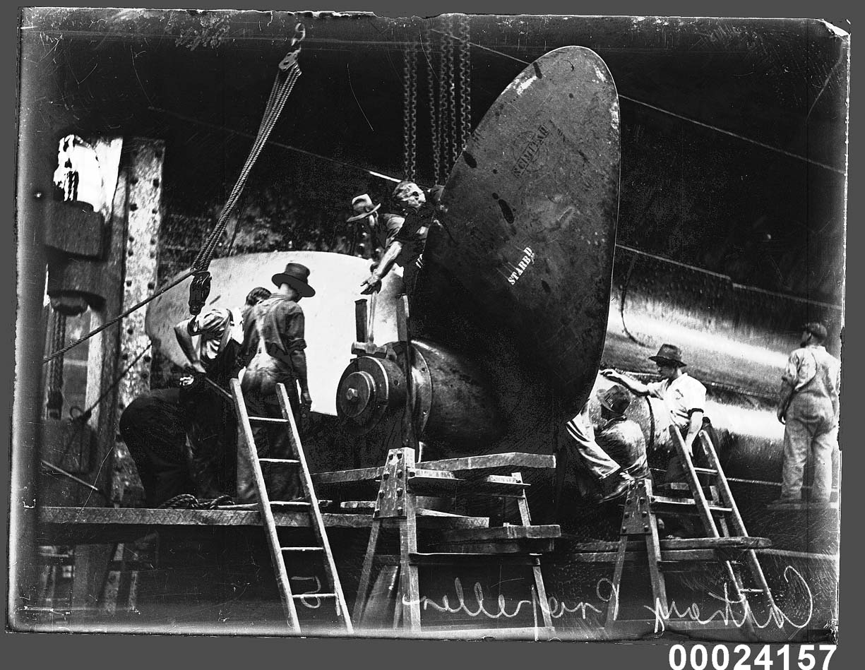 This image depicts CATHAY, a 15,104 ton P&O Liner, in dry dock with its propellor being worked upon. The CATHAY was built in 1925 and in December 1933, lost a port propeller between Colombo and Freemantle. The vessel was docked in Sydney in Sutherland Dock, for repairs in March the following year. This photo is part of the Australian National Maritime Museum’s Samuel J. Hood Studio collection. Sam Hood (1872-1953) was a Sydney photographer with a passion for ships. His 60-year career spanned the romantic age of sail and two world wars. The photos in the collection were taken mainly in Sydney and Newcastle during the first half of the 20th century. The ANMM undertakes research and accepts public comments that enhance the information we hold about images in our collection. This record has been updated accordingly. Photographer: Samuel J. Hood Studio Collection Object no. 00024157